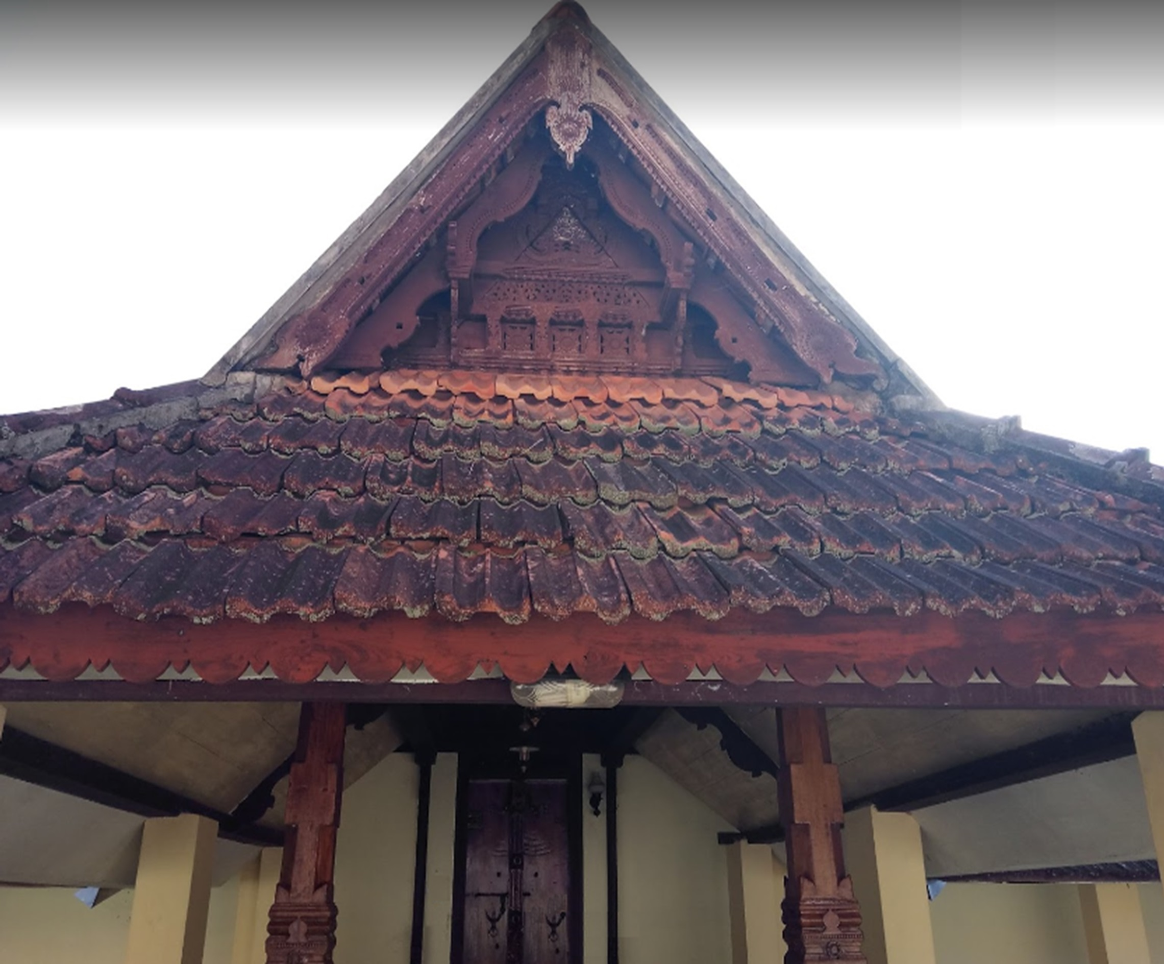 Lakshmipuram Palace Chanaganssery